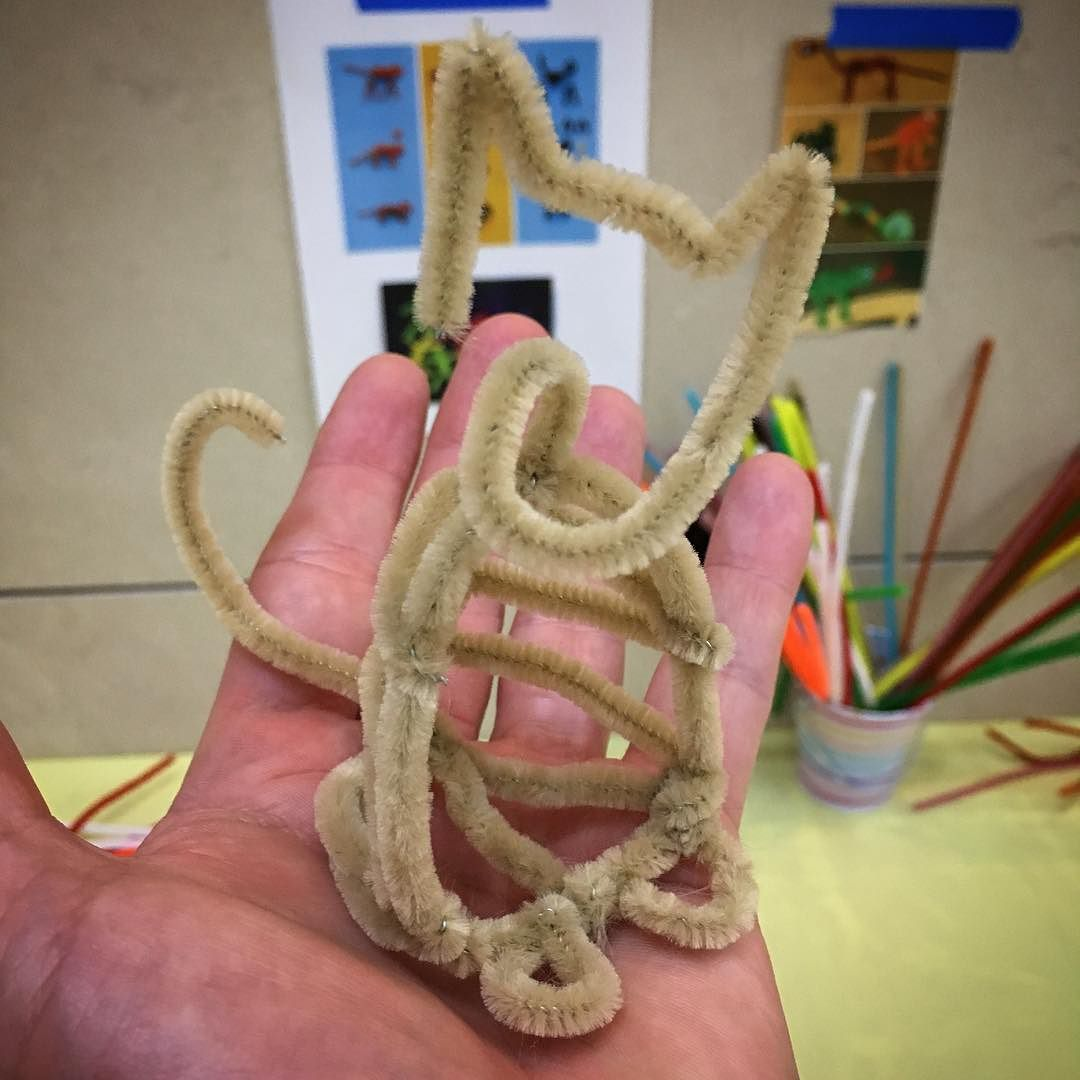 May we present to you "Library Pipe Cleaner Cat." Courtesy of our Feel Good Finals craft and maker table. All week in our lobby! Stop by and de-stress for a bit. #finals #lmu #catsofinstagram - via Instagram ift.tt/2q2ALPP